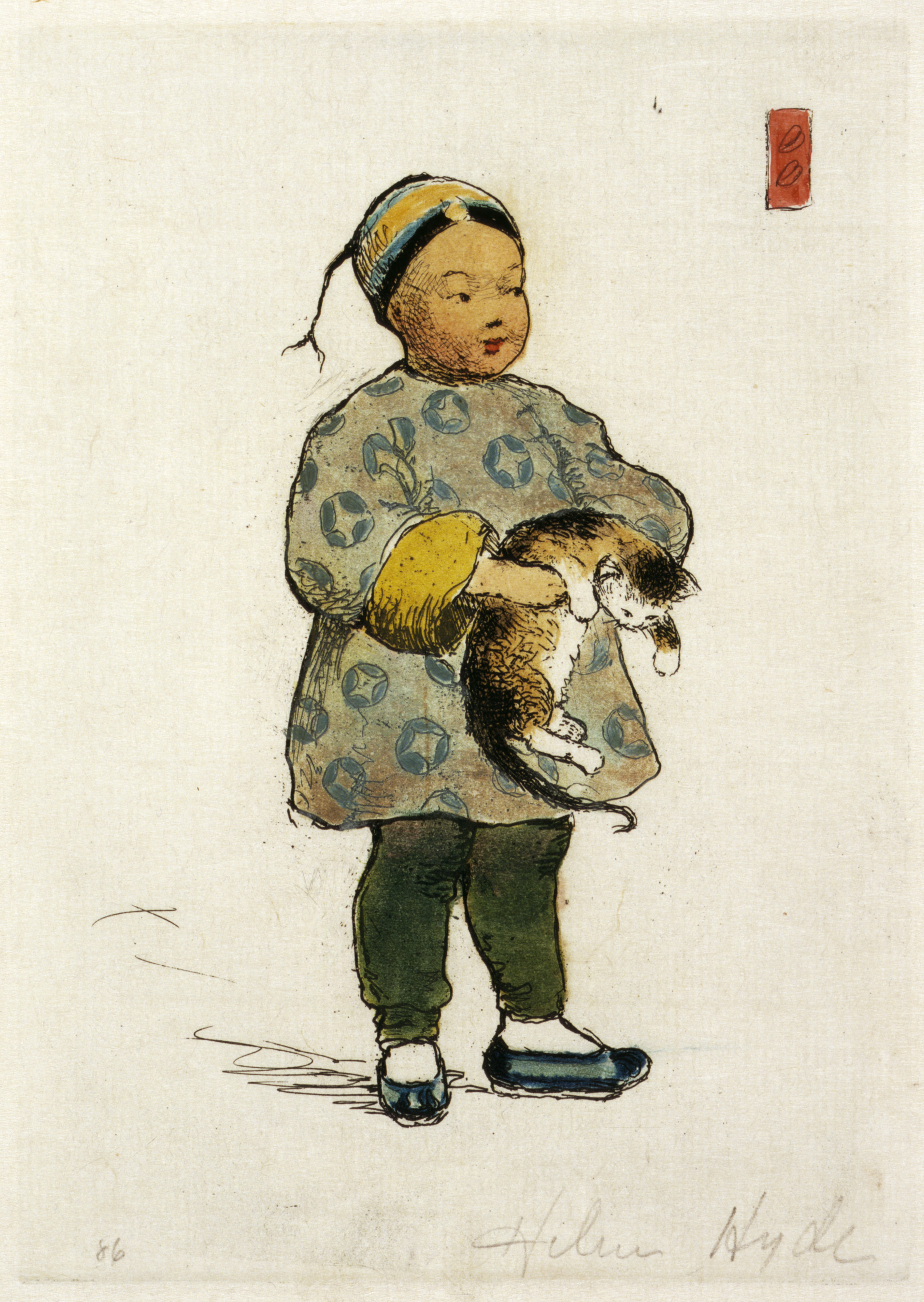 Print shows a Chinese boy holding a cat. Probably sketched in San Francisco, Chinatown